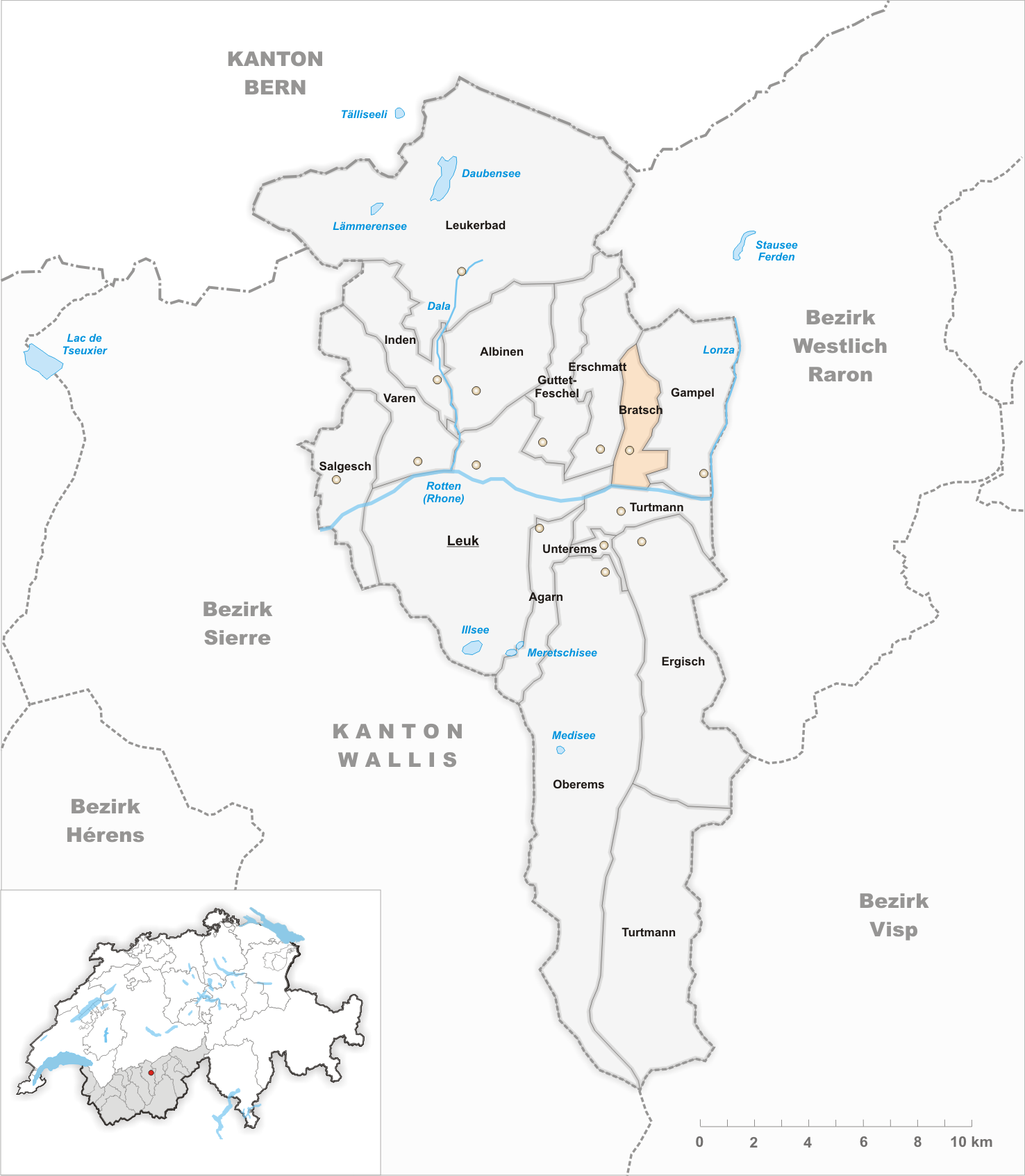 Municipality Bratsch